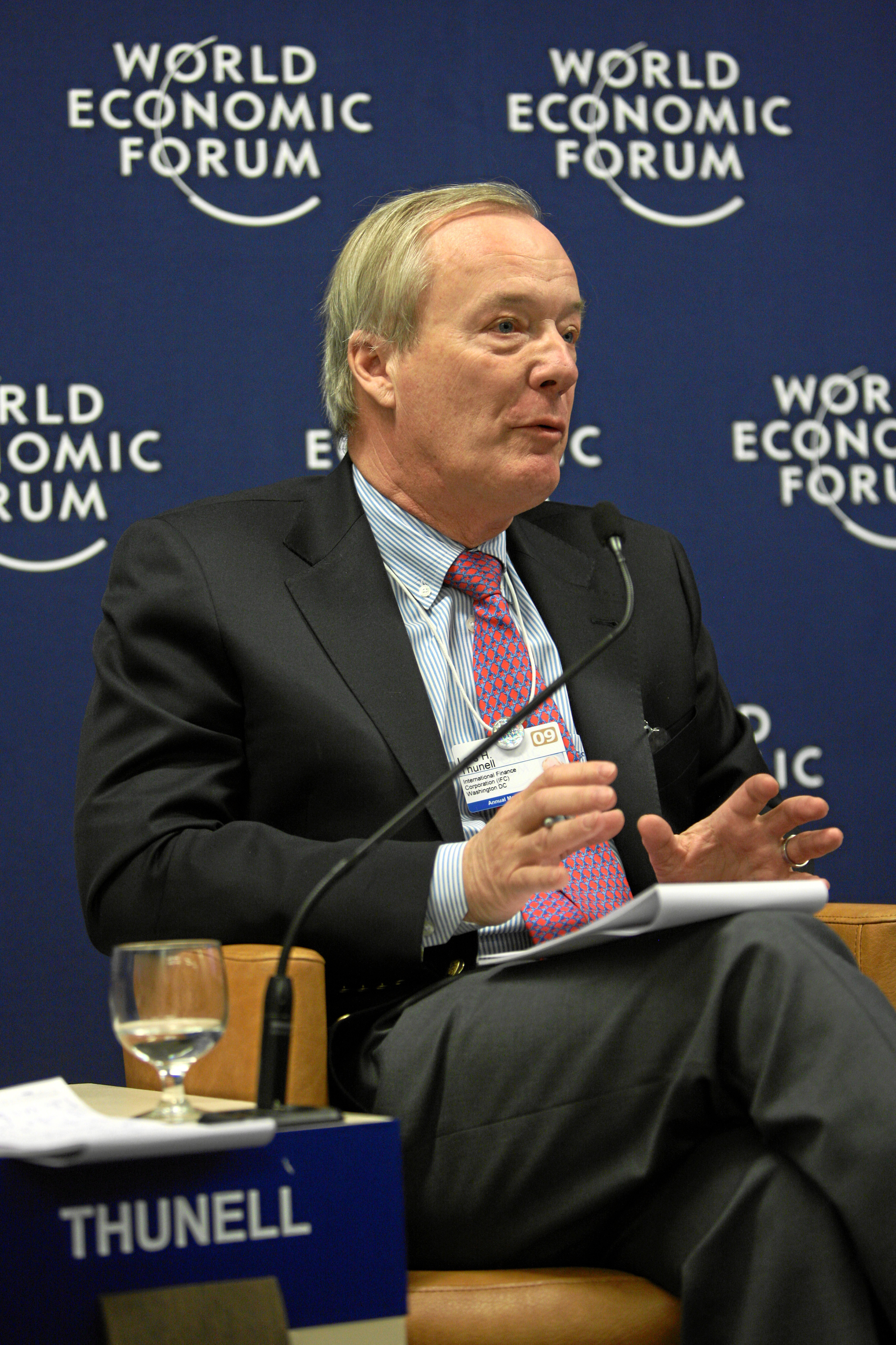 Lars H. Thunell, Executive Vice-President and Chief Executive Officer, International Finance Corporation (IFC), Washington DC, captured during the session 'Update 2009: Africa' at the Annual Meeting 2009 of the World Economic Forum in Davos, Switzerland, January 28, 2009.